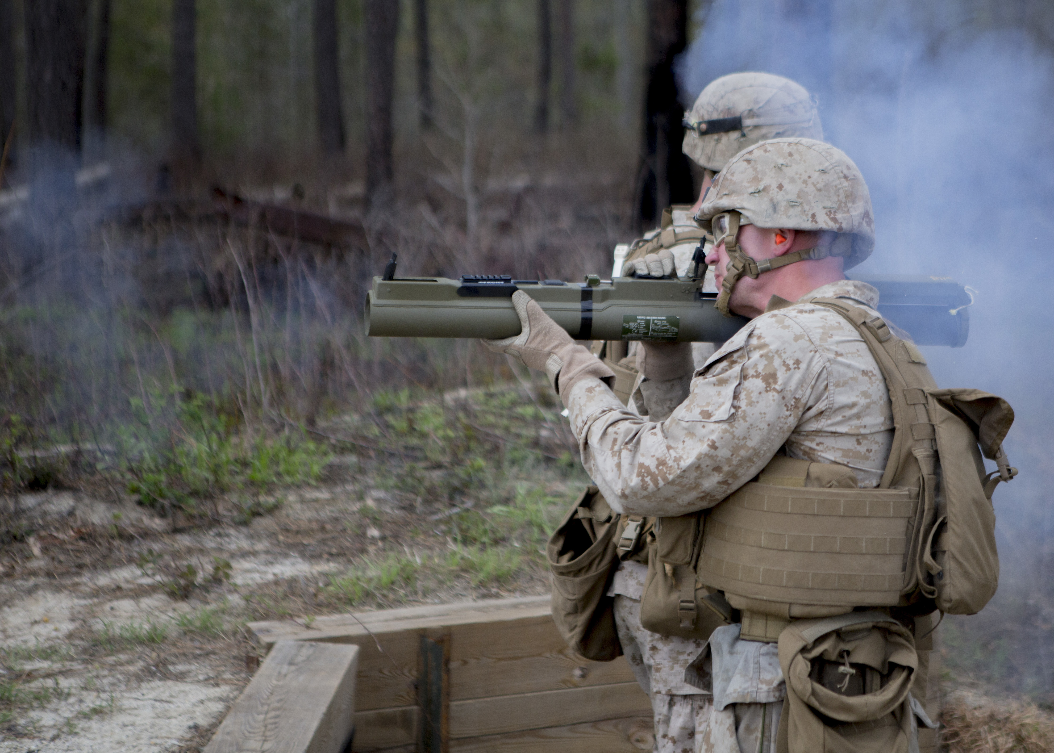 U.S. Marine Corps Lance Cpl. David Coker, assaultman, Alpha Company, 1st Battalion, 2nd Marine Regiment, 2nd Marine Division (MARDIV), fires a M72 Light Anti-Armor Weapon during a deployment for training exercise on Fort A.P. Hill, Va., April 20, 2015. The exercise focused on stability operations and various training missions. (U.S. Marine Corps photo by Lance Cpl. Alexander Hill, 2D MARDIV Combat Camera/Released)